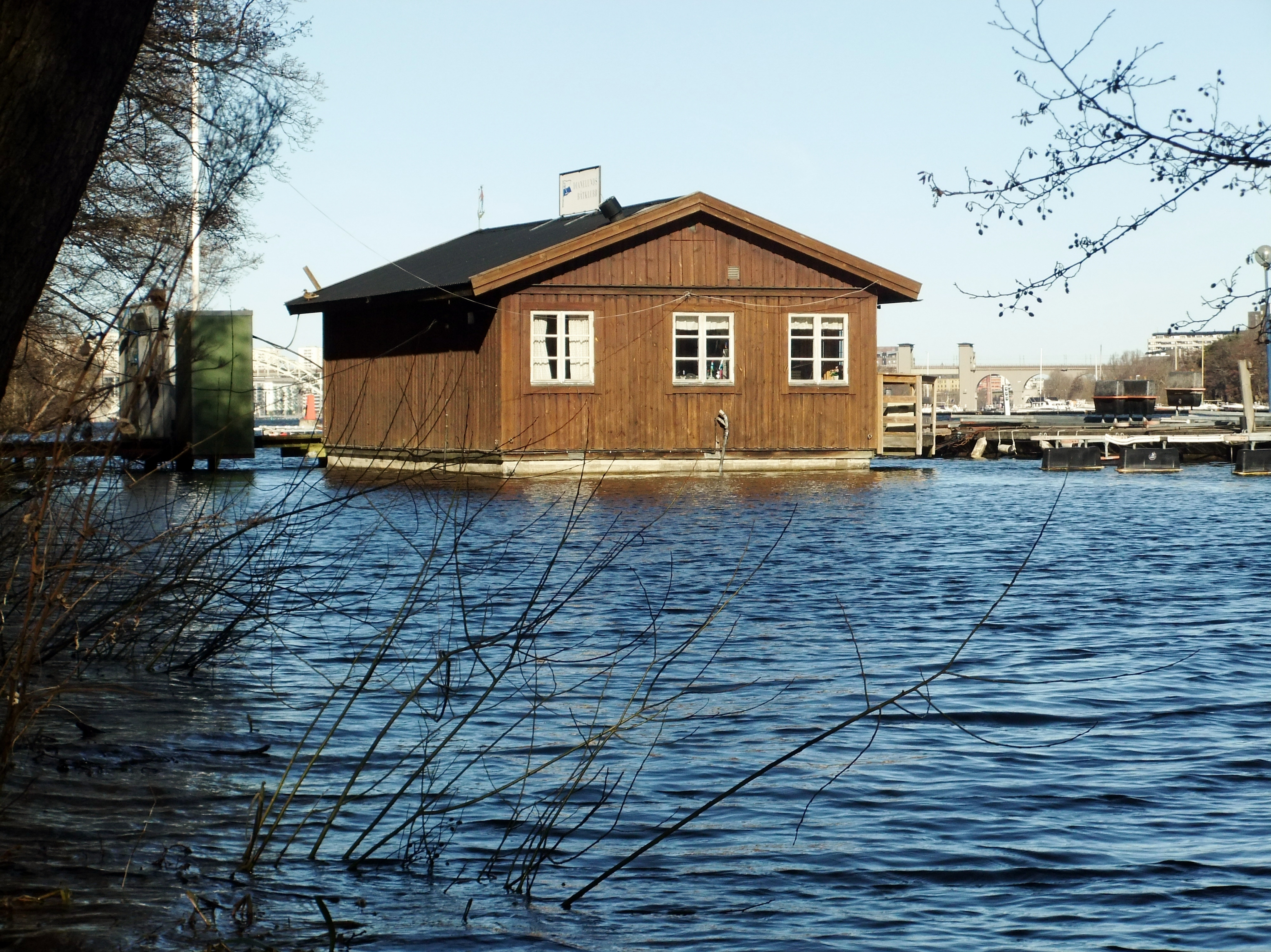 Houseboat in Stockholm, Sweden